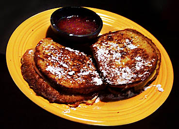 This image was created by the user Hinchu aka Greg Tatum and features a delicious Monte Cristo created by him.